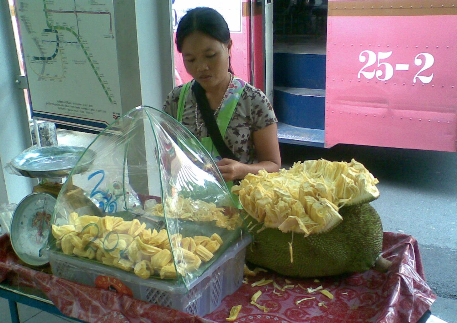 Selling jackfruit in Bangkok